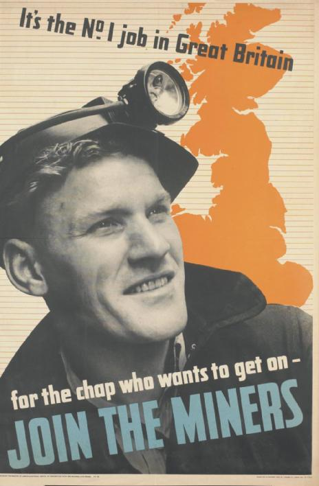 Join the Miners whole: the image occupies the whole, set against a white and orange, horizontally striped background. The title is integrated and positioned in the lower quarter, in blue. The text is integrated and placed in the upper quarter, in black, and in the lower quarter, in white. image: a shoulder-length depiction of a smiling miner, wearing a headlamp, set against an orange silhouette of Great Britain. text: it's the No. 1 job in Great Britain for the chap who wants to get on - JOIN THE MINERS ISSUED BY THE MINISTRY OF LABOUR and NATIONAL SERVICE IN CONJUNCTION WITH THE NATIONAL COAL BOARD. P.P. 158. PRINTED FOR H.M. STATIONERY OFFICE BY J. WEINER LTD., LONDON. W.C.1. 51-3743